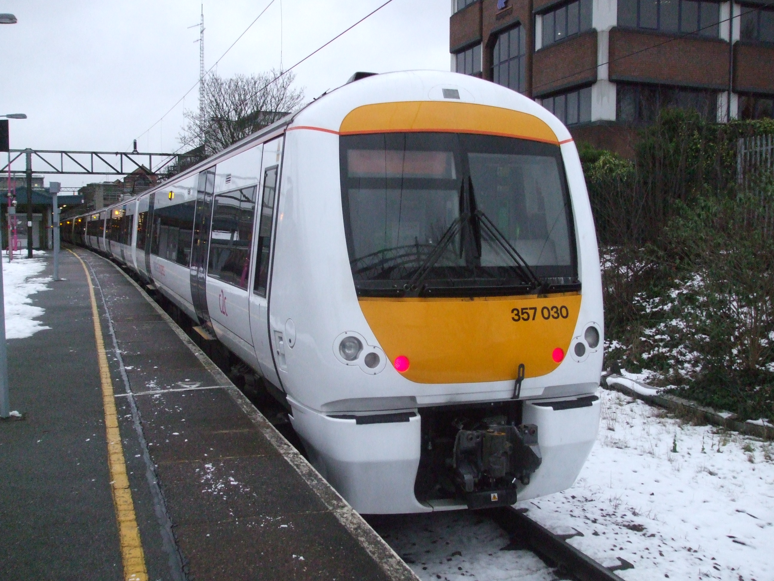 Class 357 unit 357 in new National Express livery seen at Barking station, forming the rear of an 8-car c2c shuttle service between Barking and Grays.